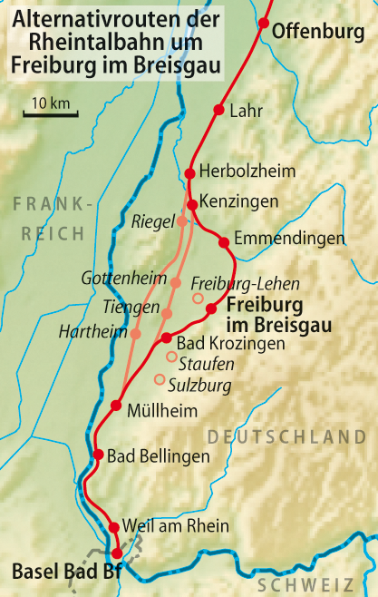 Map of Rheintalbahn with planned alternative routes